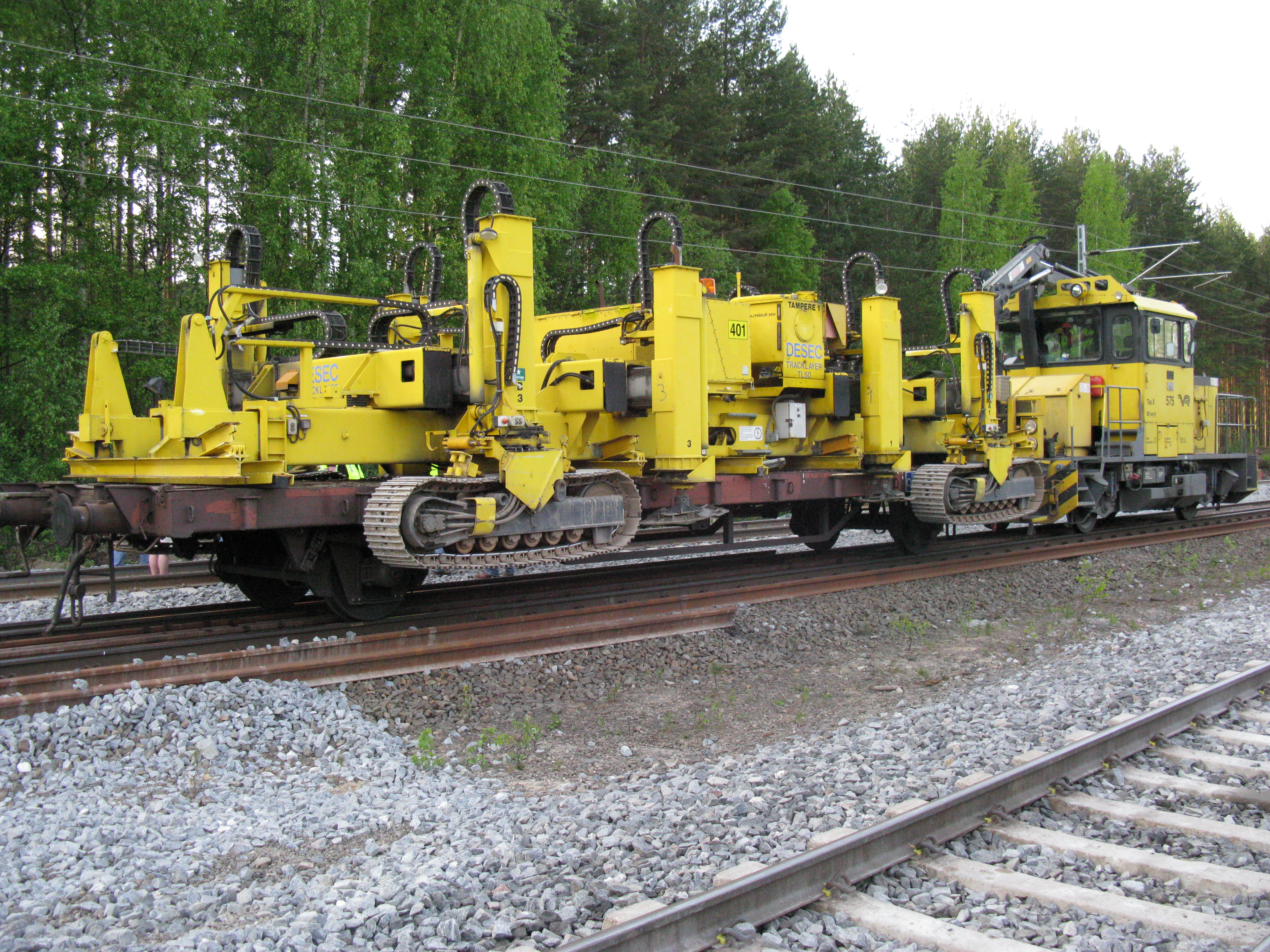 Desec tracklayer TL50 with Tka8 rail service vehicle in Finland